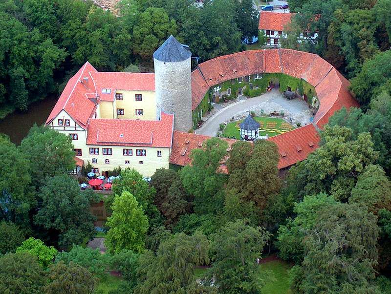 An aerial view of the Wasserschloss Westerburg in northward direction. The picture was taken in 2006.